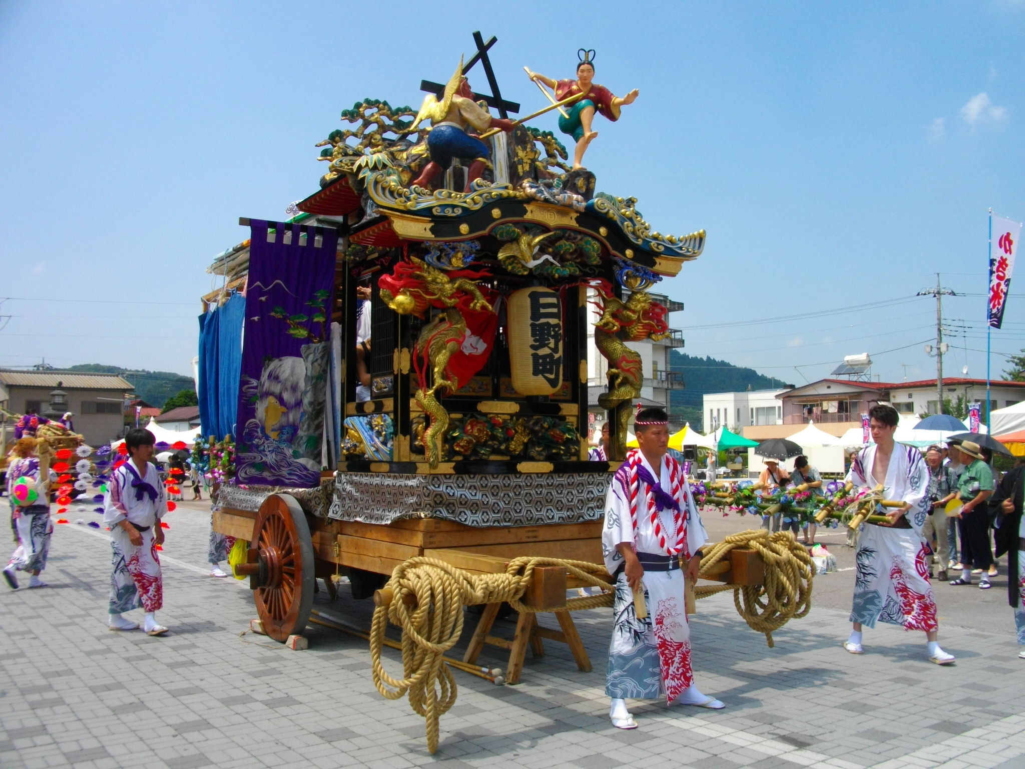 2014 Yamaage Matsuri